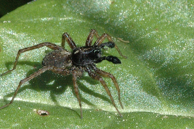 Pardosa amentata from Commanster, Belgian High Ardennes .